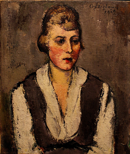 Portrait of a girl